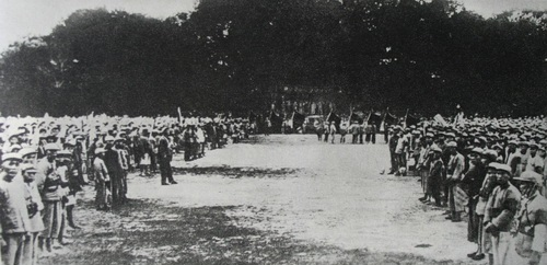 1931 military parade of formation of Chinese Soviet Republic. 1931年11月7日，中華蘇維埃共和國臨時中央政府成立“開國大典”閱兵儀式在江西瑞金舉行。